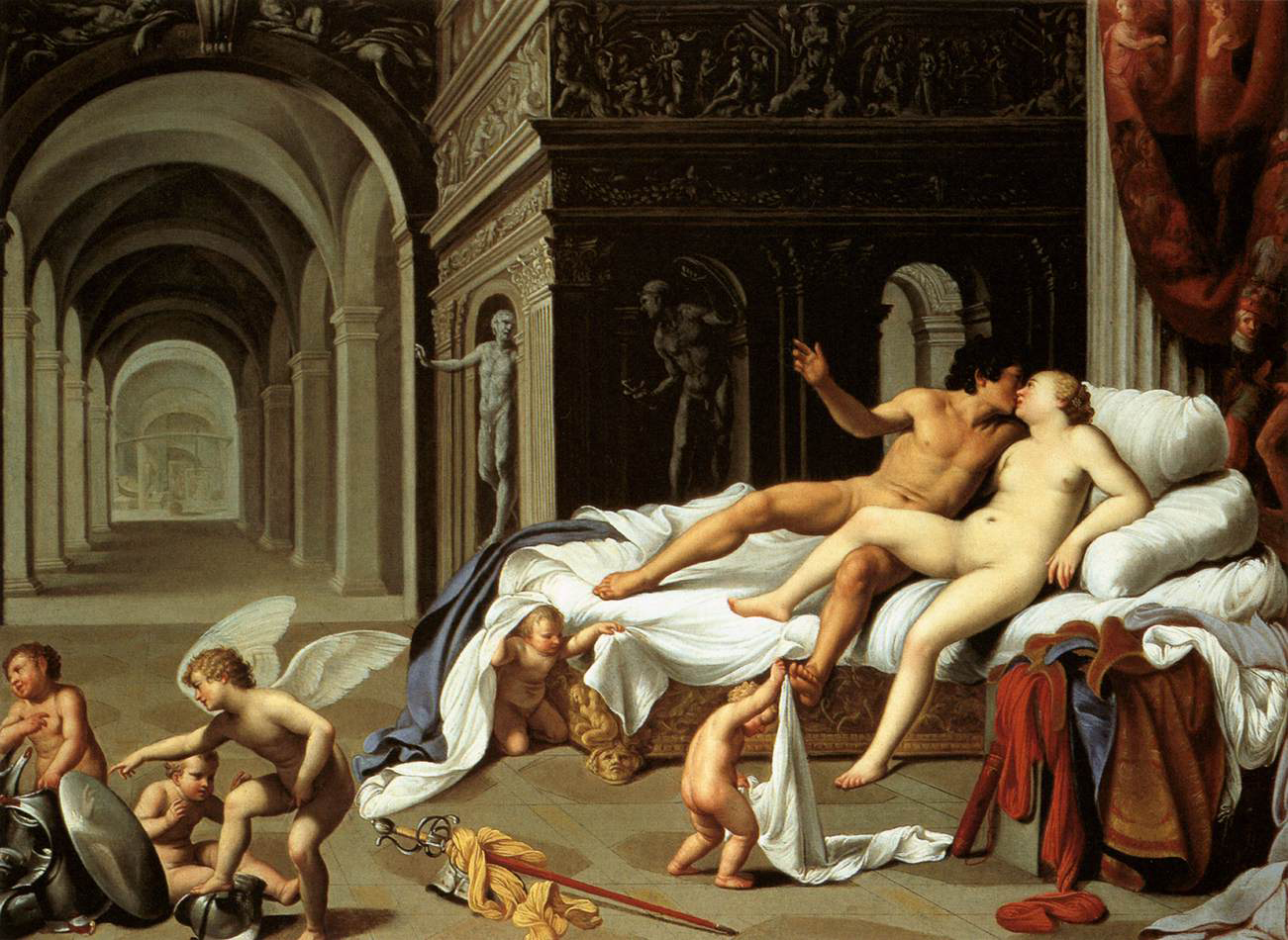 Venus and Mars, Oil on copper, 40 x 55 cm, Museo Thyssen-Bornemisza, Madrid